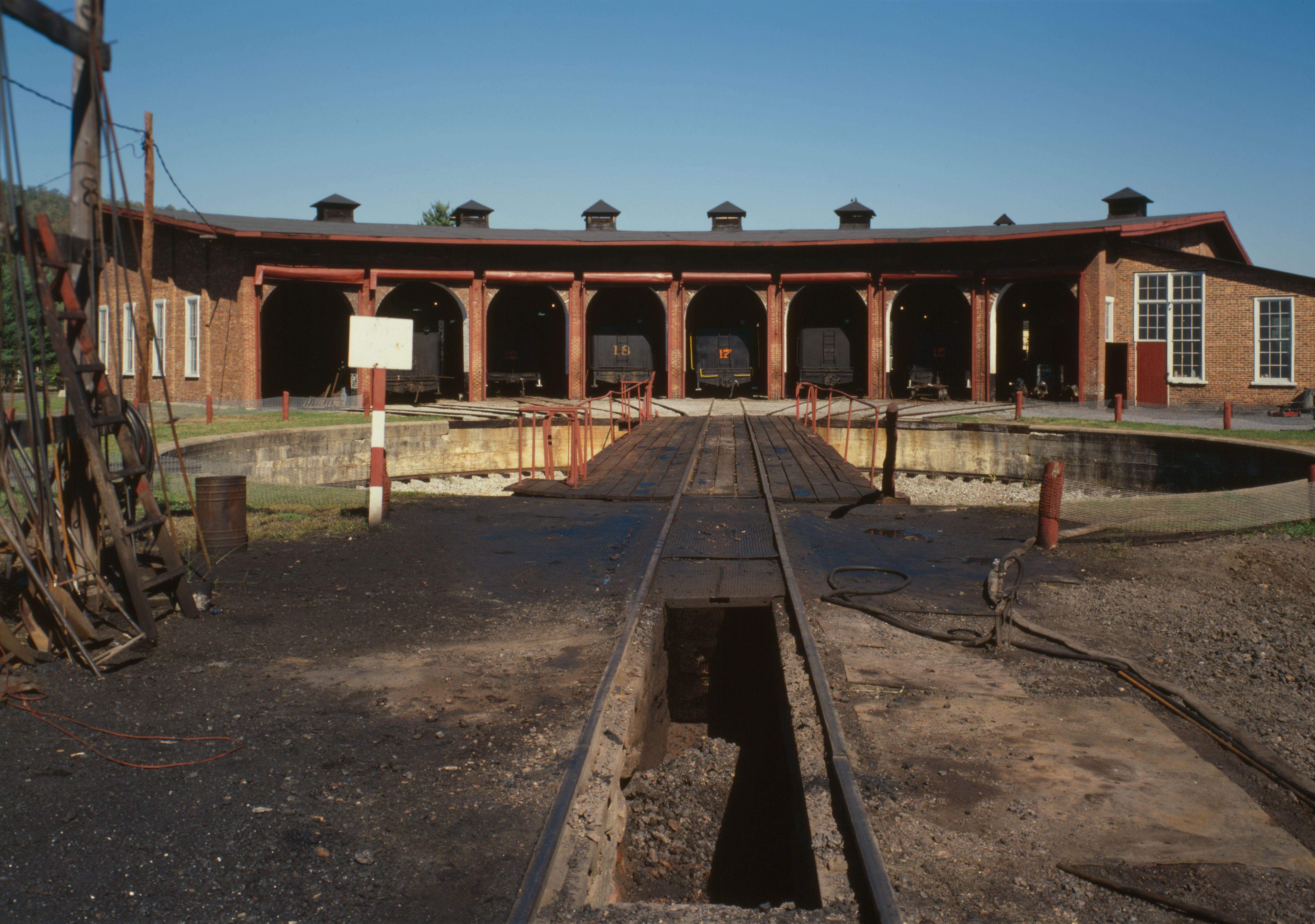 East Broad Top Railroad & Coal Company, Ash Pit, Turntable & Roundhouse.